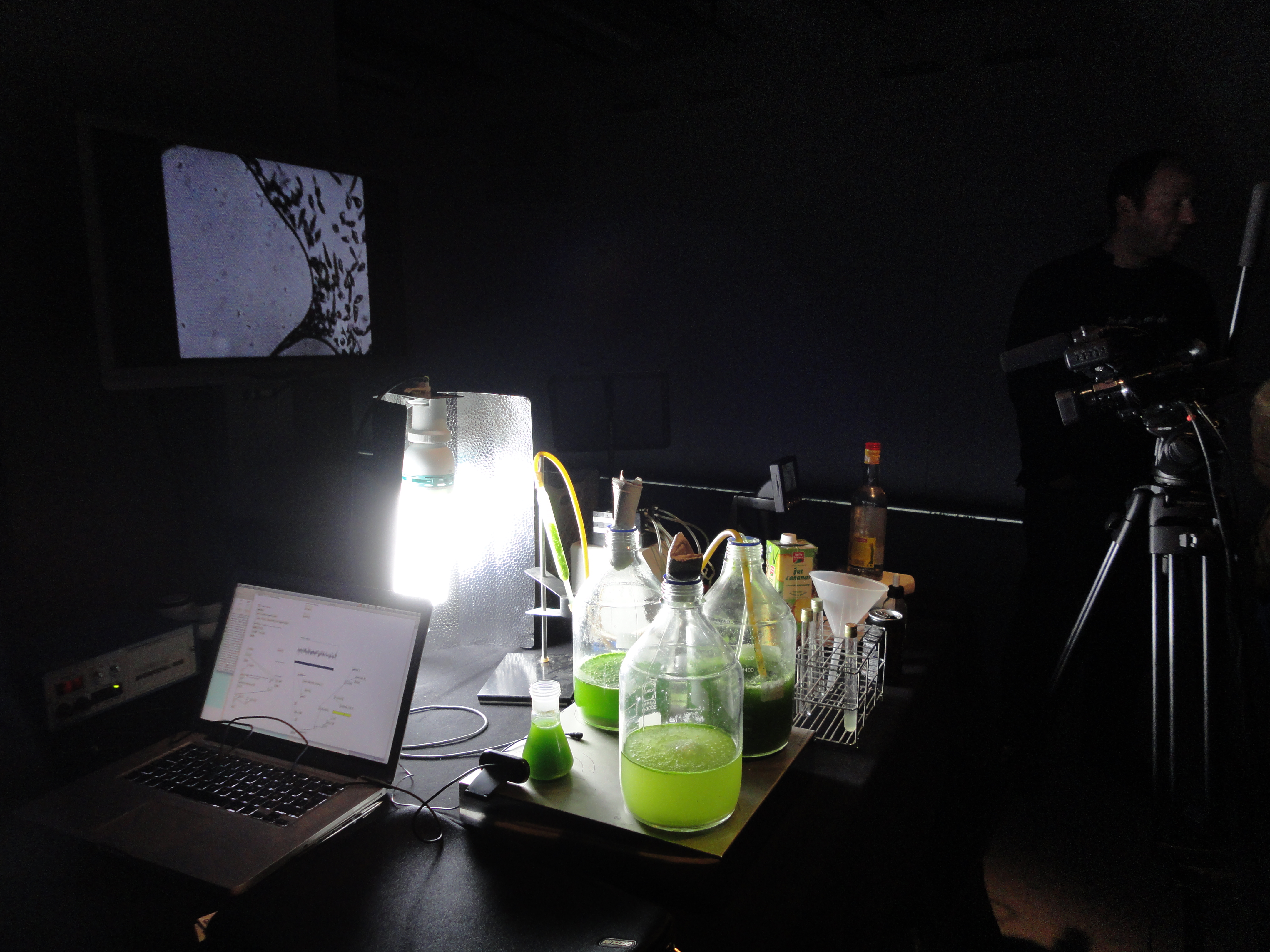 Microlife is a sound installation based on an algae culture of the Euglena genus. It has been presented as part of the end of residence of the community laboratory La Paillasse at the Gaîté Lyrique museum (Paris, France), the 21th april 2012.